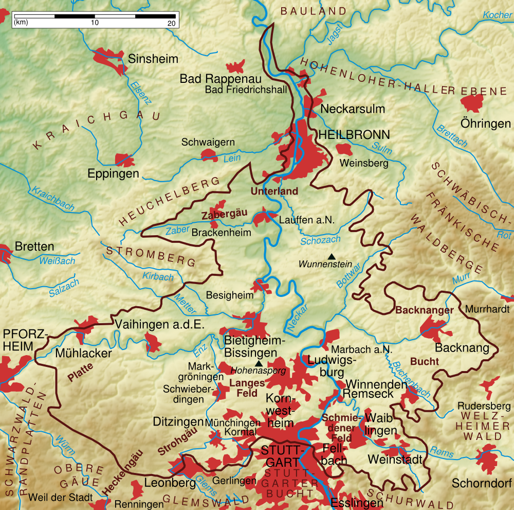 physical map of the Neckar bassin.